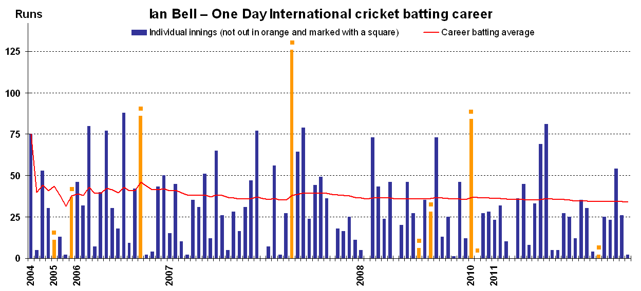 Graph is for the ODI batting average of some player. withexplaination This graph details the One Day International cricket performance of English cricketer Ian Bell and was created by en.wiki user:EdChem. Each bar indicates a single ODI game, blue ones for innings in which he was dismissed, orange ones (marked with a square) for innings in which he batted but was not out. The red line shows his career batting average as at the end of each match. An alternative version, File:Ian Bell ODI batting career v2.png instead shows a 10 match moving average.The graph was generated with Microsoft Excel 2003, the resulting chart being copied to Adobe Photoshop 9 and saved in .png format, using data from Cricinfo [1] and Howstat [2]. This version is current as at 23 January 2012, which is also the date it was prepared.